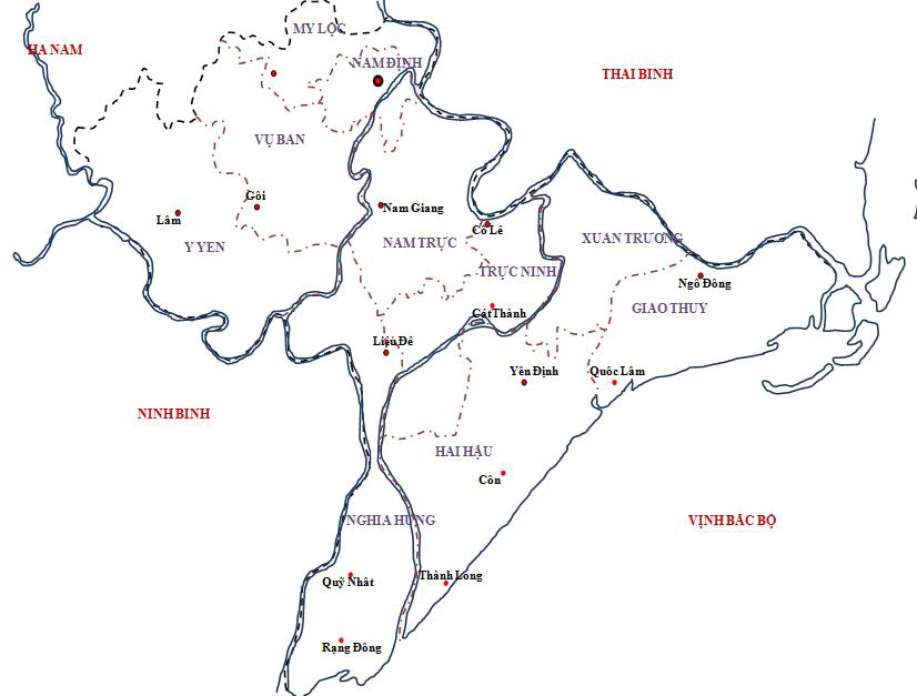 kjhgfdsa